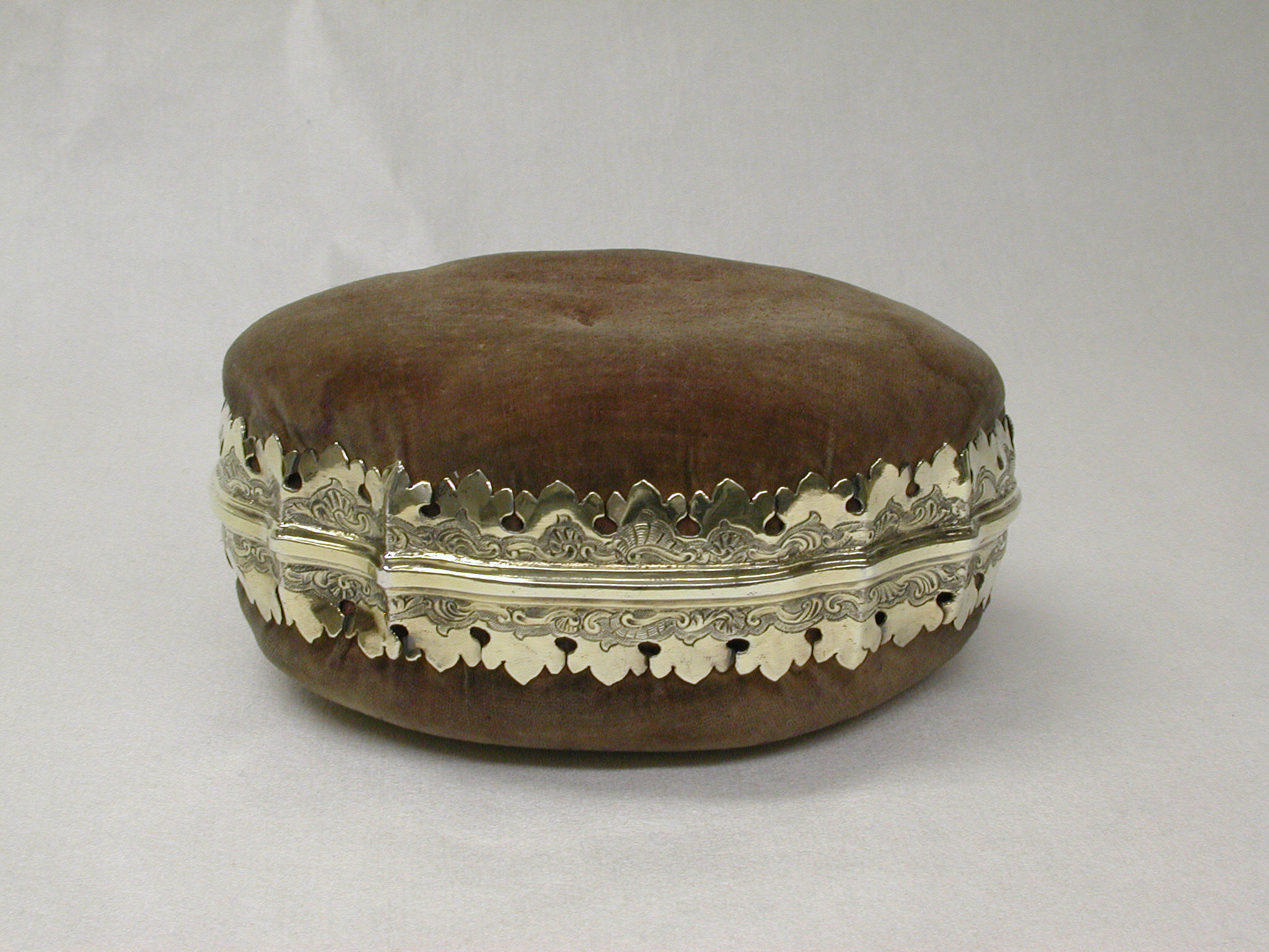 German, Augsburg; Pincushion; Metalwork-Silver